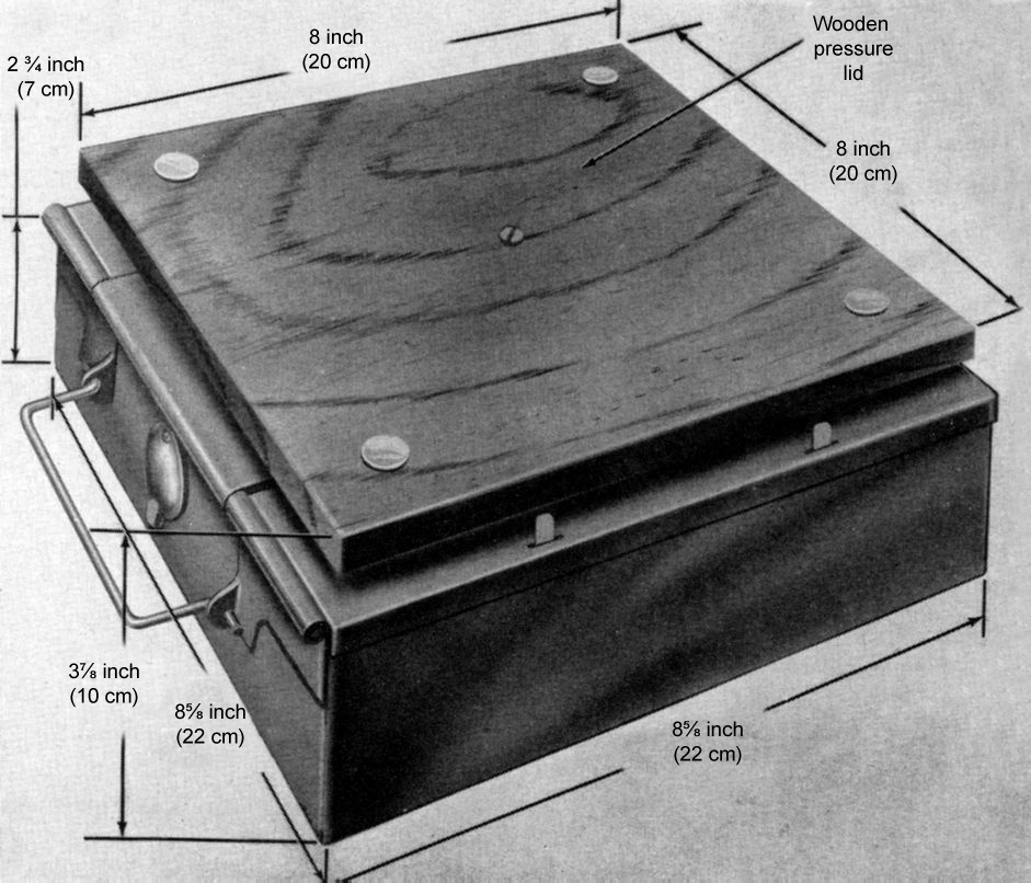 An early Russian anti-tank landmine, the T-IV mine